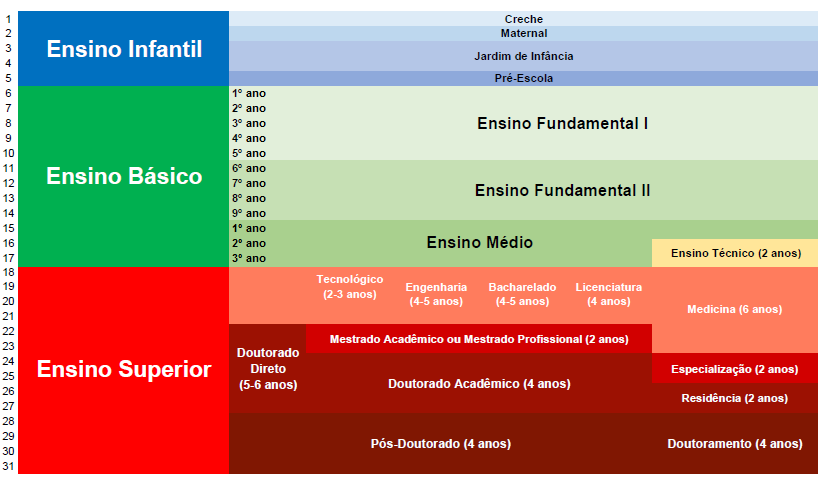 Table showing how the Education System is organized in Brazil